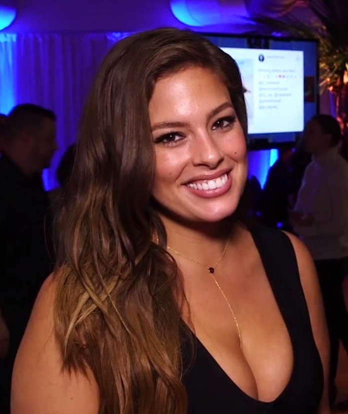 American model Ashley Graham at Sports Illustrated Swim City fan festival in New York City in 2016, interviewed by Arthur Kade of Behind the Velvet Rope TV.